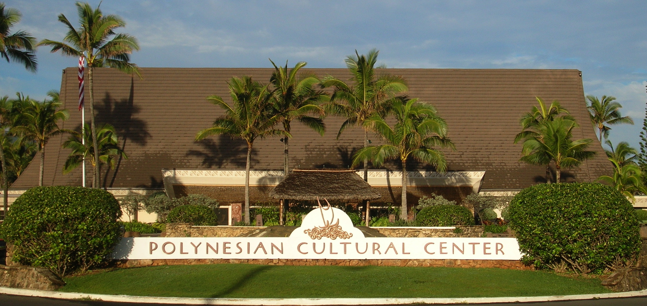 The Polynesian Cultural Center in Oahu, Hawaii.